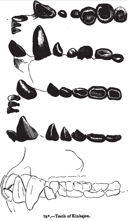 Dentition of a kinkajou